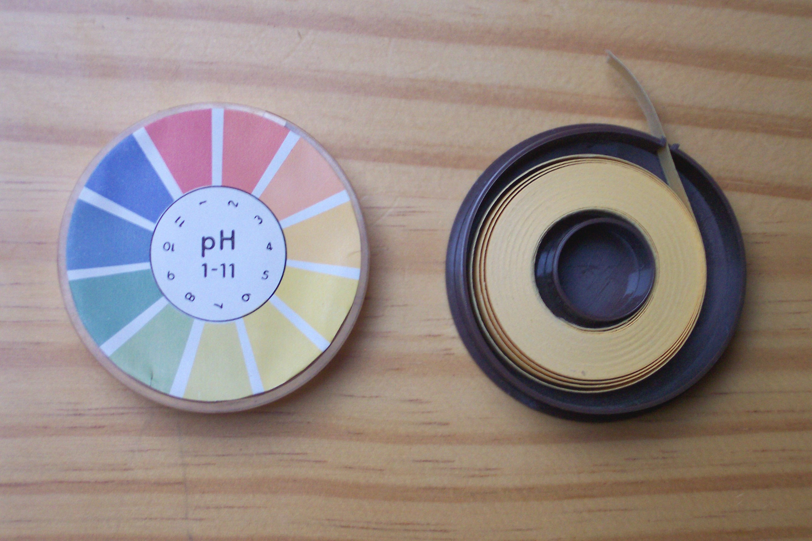 PH indicator